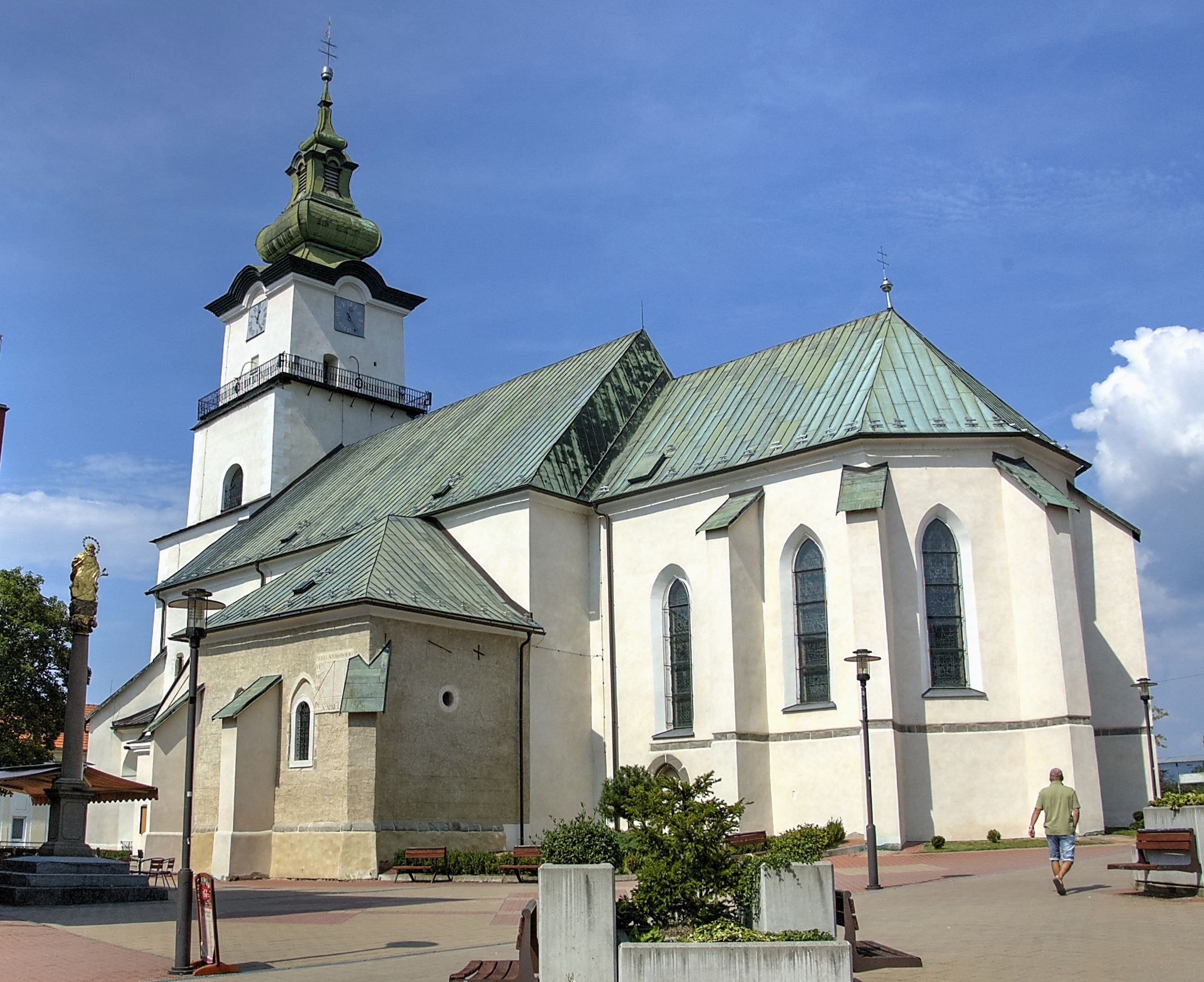 Saint Bartholomew church, Prievidza